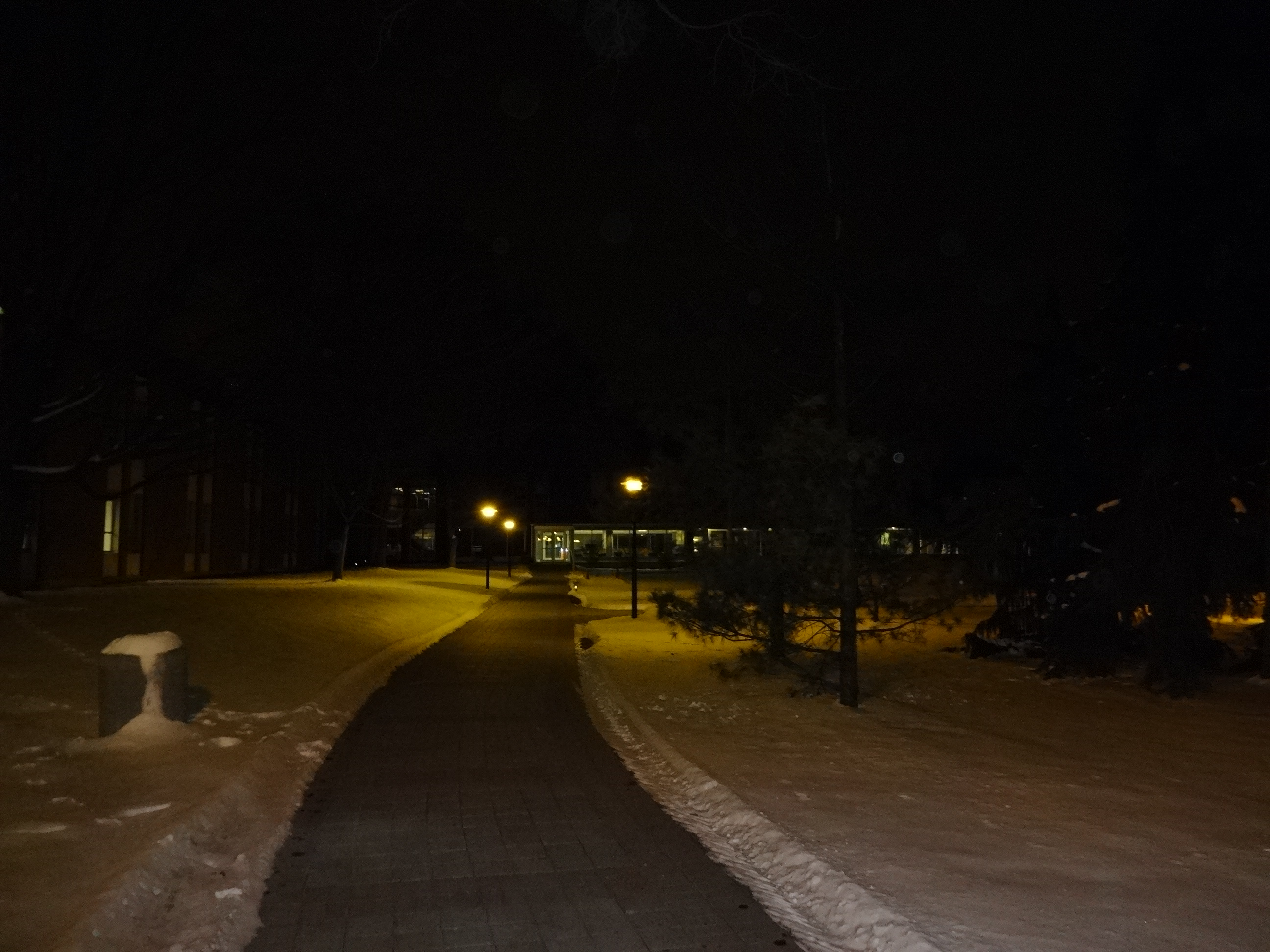 Glendon campus at night, at York University, Toronto, Ontario, Canada.